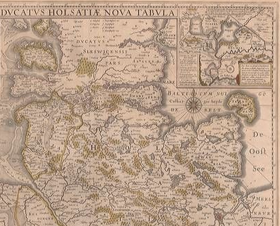 Map of the duchy of Holstein (cut)